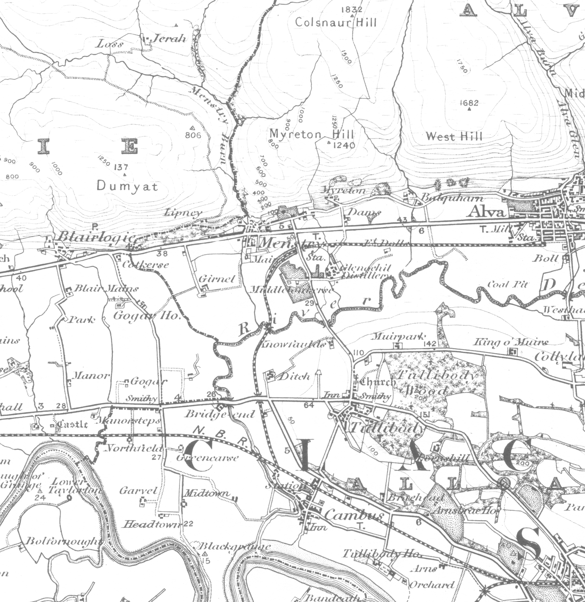 A portion of the OS sheet 39 - Stirling, 1 inch to 1 mile (1:63,360) Surveyed 1859 - 1863, published 1869, revised 1895, published 1897